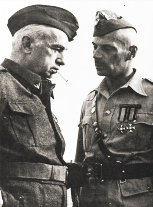 Gen. Kazimierz Sosnkowski and Gen. Władysław Anders 1944